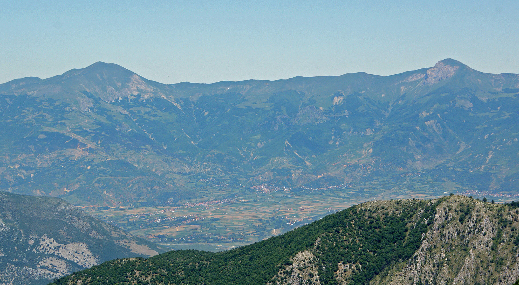 Area of Maqellara in Eastern Albania (Diber) seen from around 25 kilometres to the Southwest. Maja e Velivarit (2372 m) to the left, Maja e Kërçinës (2343 m) to the right.